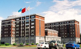 the Ning Yuan Building of UIBE